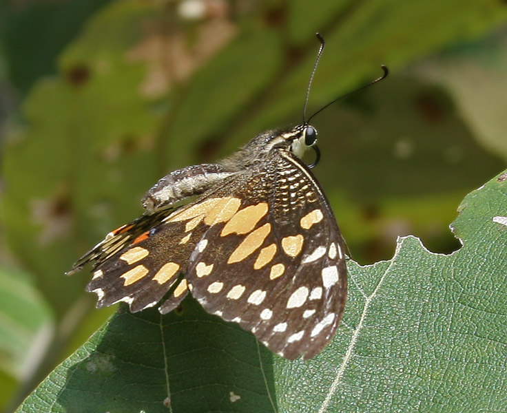 Lime Butterfly Papilio demoleus in Narsapur, Andhra Pradesh, India.